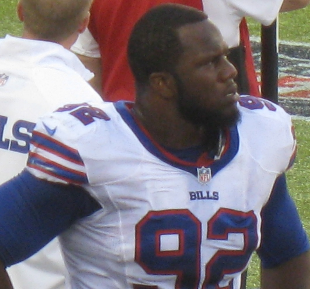 NFL player Alex Carrington, Defensive End for Buffalo Bills. Taken at Met Life Stadium September 22, 2013